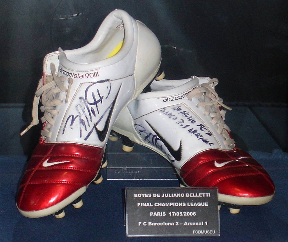 Juliano Belletti - The shoes that Belletti wore when scoring the victory goal on the final that gave FC Barcelona its second Champions Cup (2006/may/17